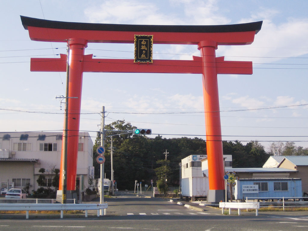 Gosha-inari (五社稲荷), located in Kozakai, Aichi, Japan